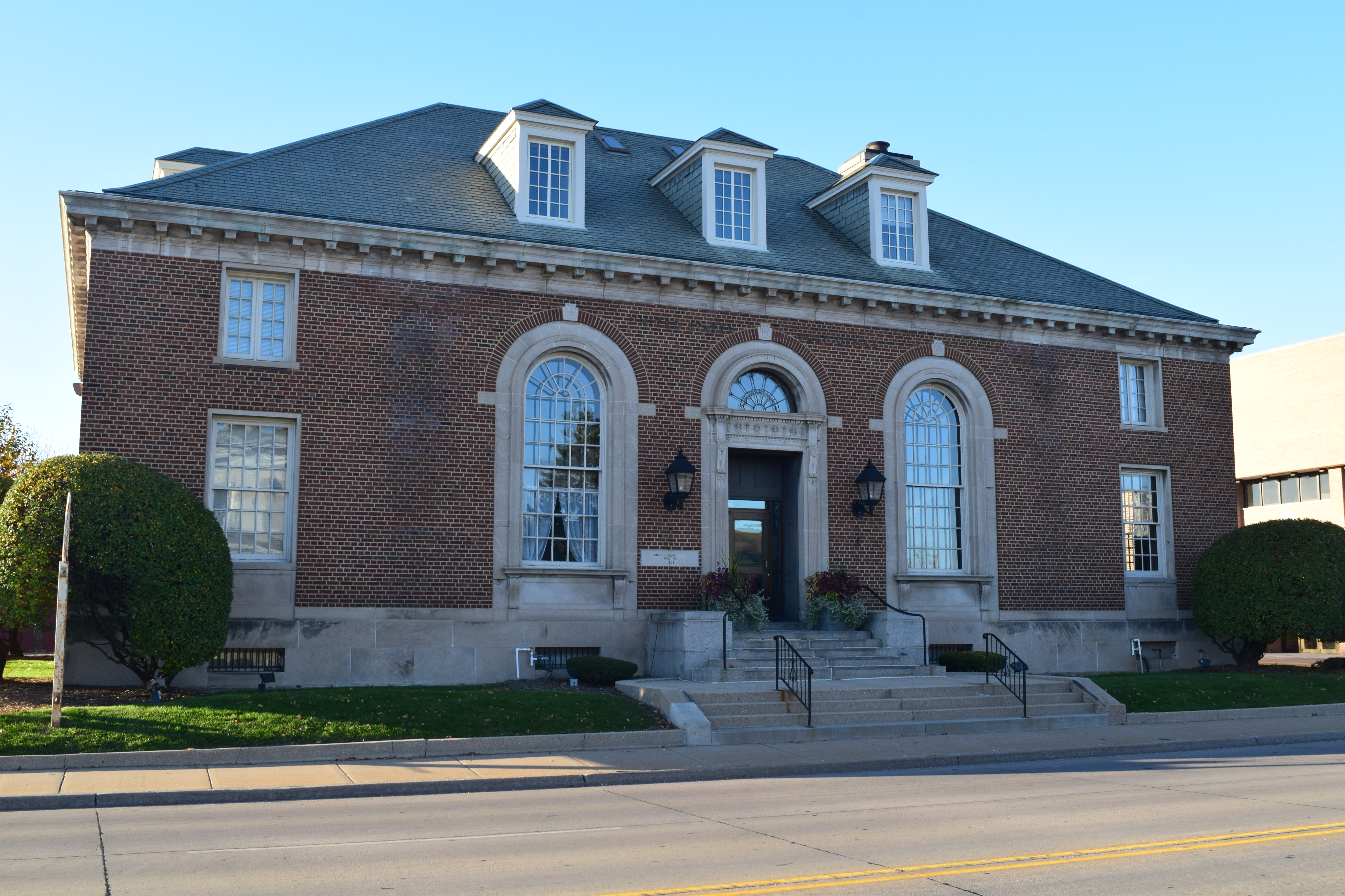 The Neenah United States Post Office, located at 307 S. Commercial St. in Neenah, Wisconsin. The building is no longer the city's main post office.